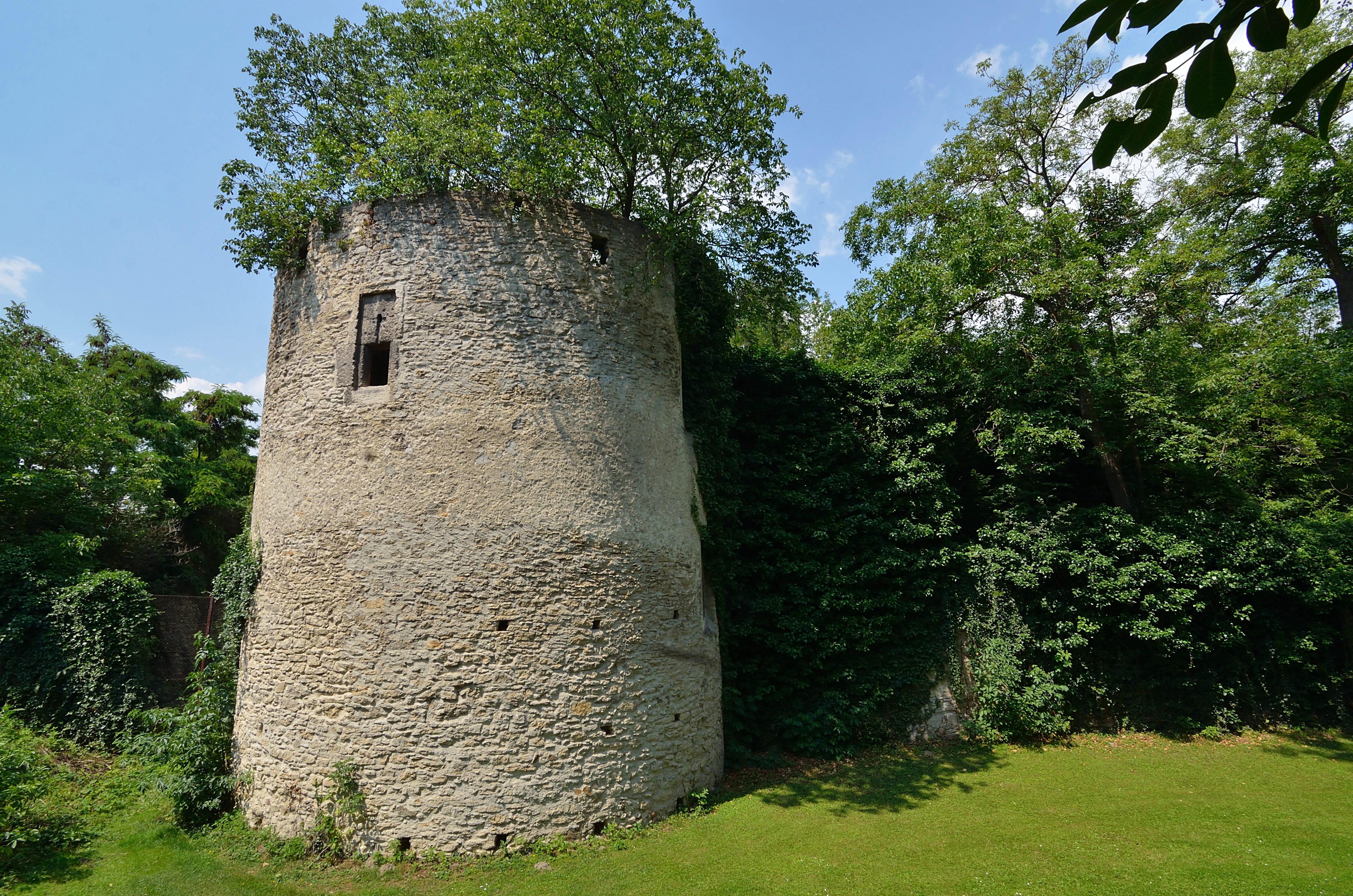 The Schwedenturm (Swede Tower) is located at the SE corner of the city wall of Eggenburg, Lower Austria.